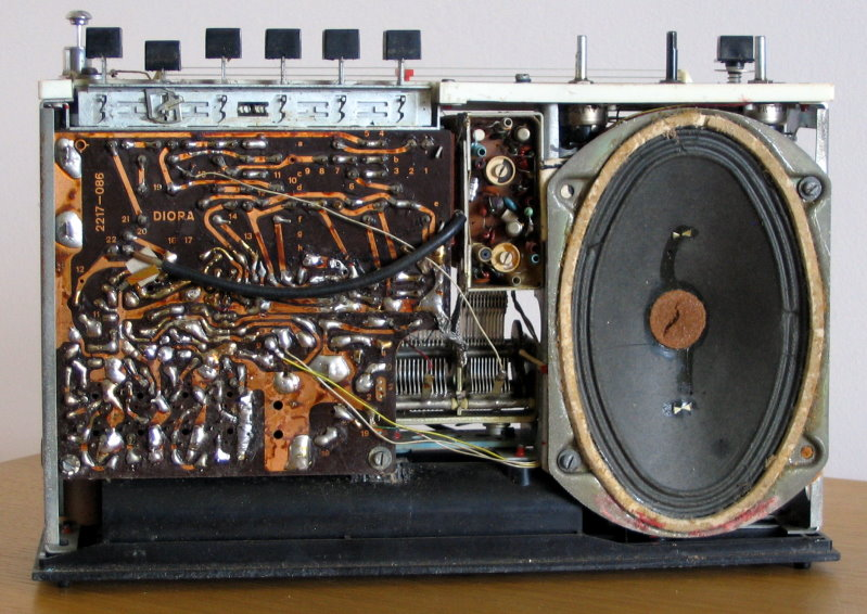 Radio "Ewa", manufacturer: "DIORA" (Poland), 1969